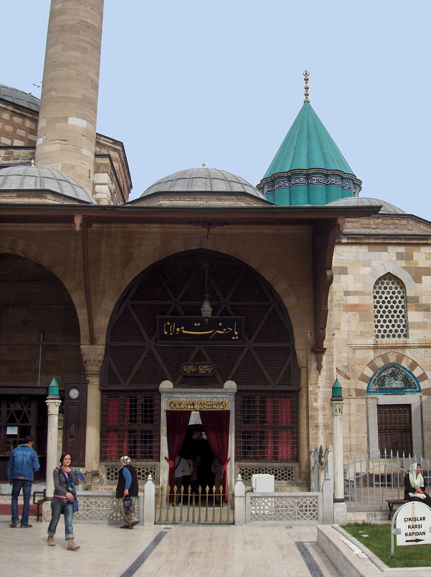 Entrance to the Mevlâna mausuleum, Konya, Turkey